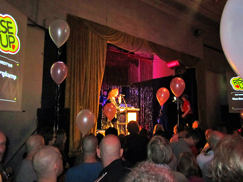 New years reception at the COC building in Rozenstraat in Amsterdam, January 29, 2012